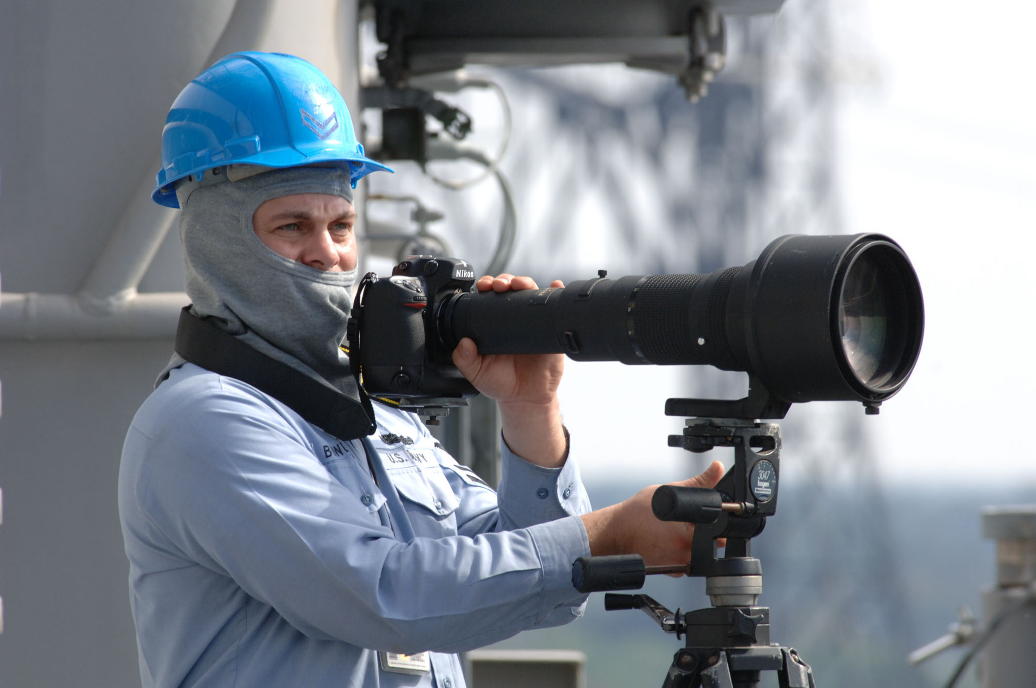 Portsmouth, Va. (Oct. 19, 2006) - Mass Communication Specialist 2nd Class Kevin Bowlin practices for the "Snoopy Team" during a general quarters (GQ) drill aboard USS Harry S. Truman (CVN 75). Truman is currently conducting a planned incremental availability (PIA) at Norfolk Naval Ship Yard (NNSY) and will return to sea this fall. U.S. Navy photo by Mass Communication Specialist Seaman Apprentice Justin Smelley (RELEASED)